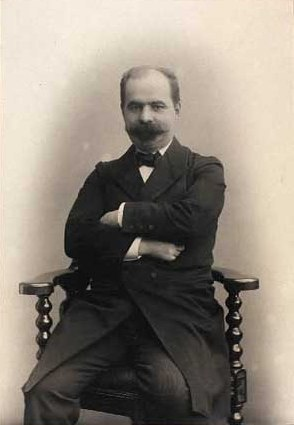 Danish bank manager (Privatbanken) and estate owner Axel Heide (1861-1915)